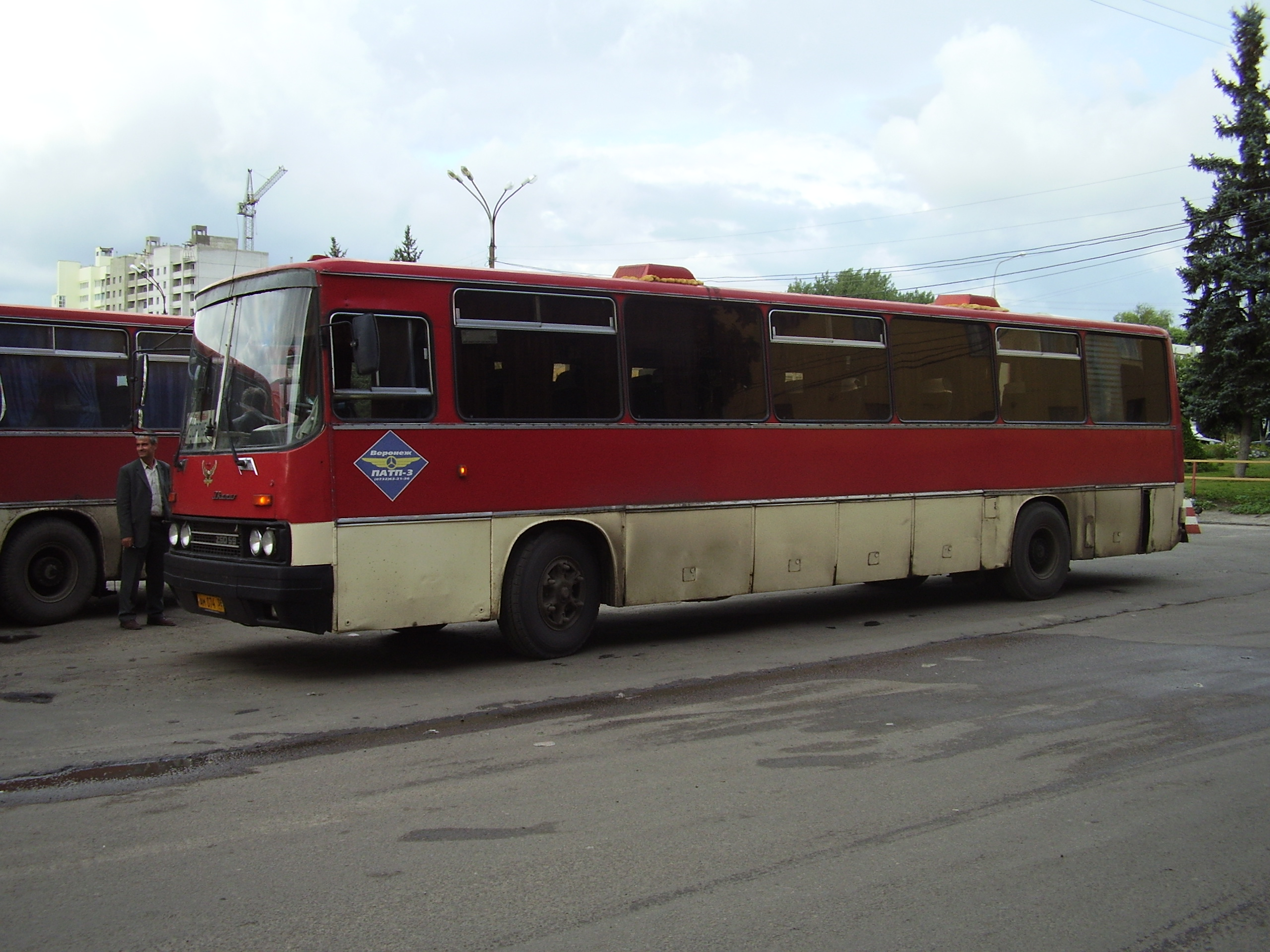 Ikarus-250.59, Voronezh